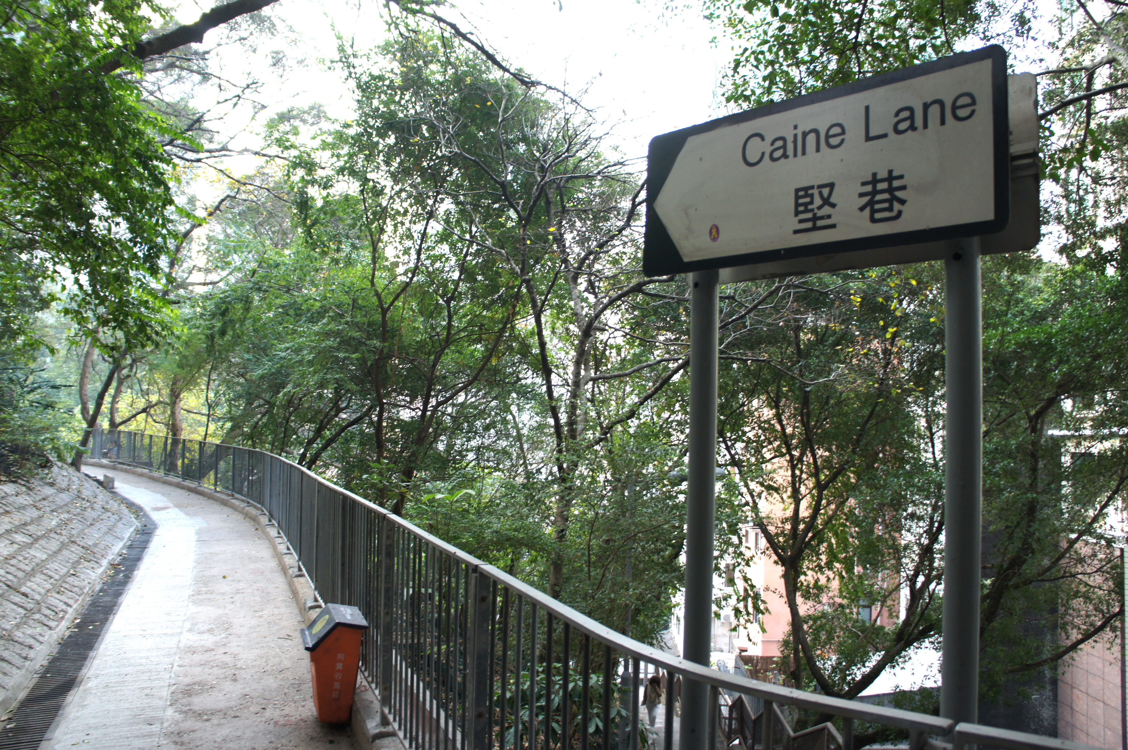 Caine Lane, Hong Kong.